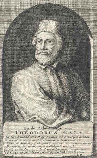 Engraved portrait of Theodorus Gaza(c. 1400 – 1475) (Greek: Θεόδωρος Γαζής, Theodoros Gazis